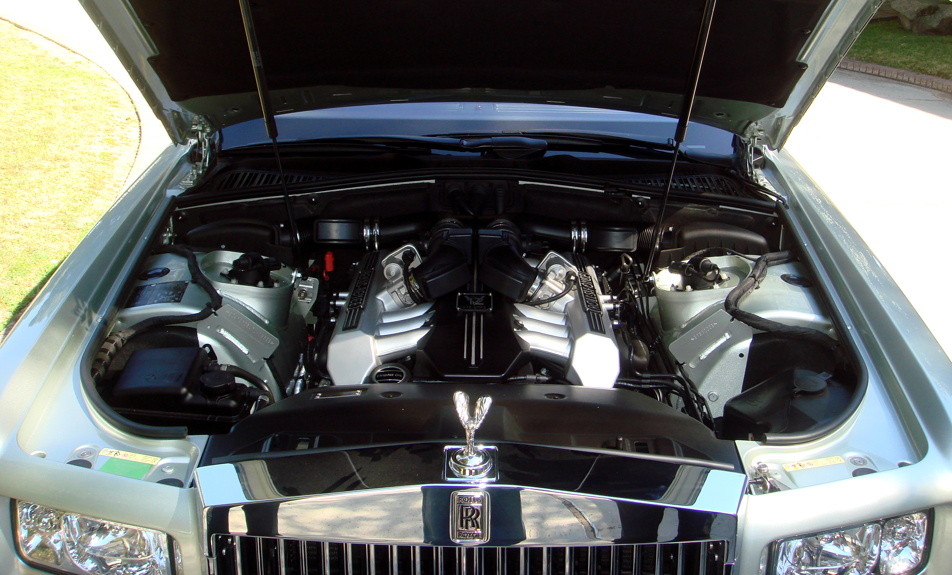 The V-12 engine of a Rolls-Royce Phantom (2008 model).